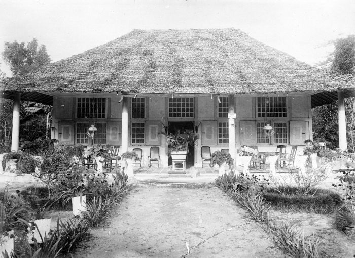 The house in which Rumphius lived